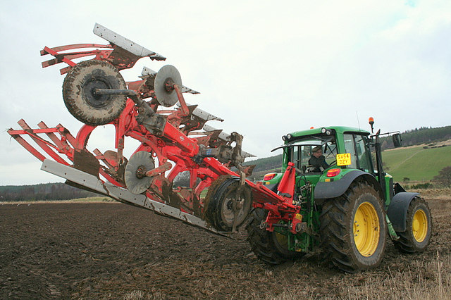 A Kuhn five furrow plough by Dallas. The ploughman stopped and we reminisced about the horse-plough, the fiddle for sowing corn, the grubber, the harrows, the slipe and the beauty of the horse.